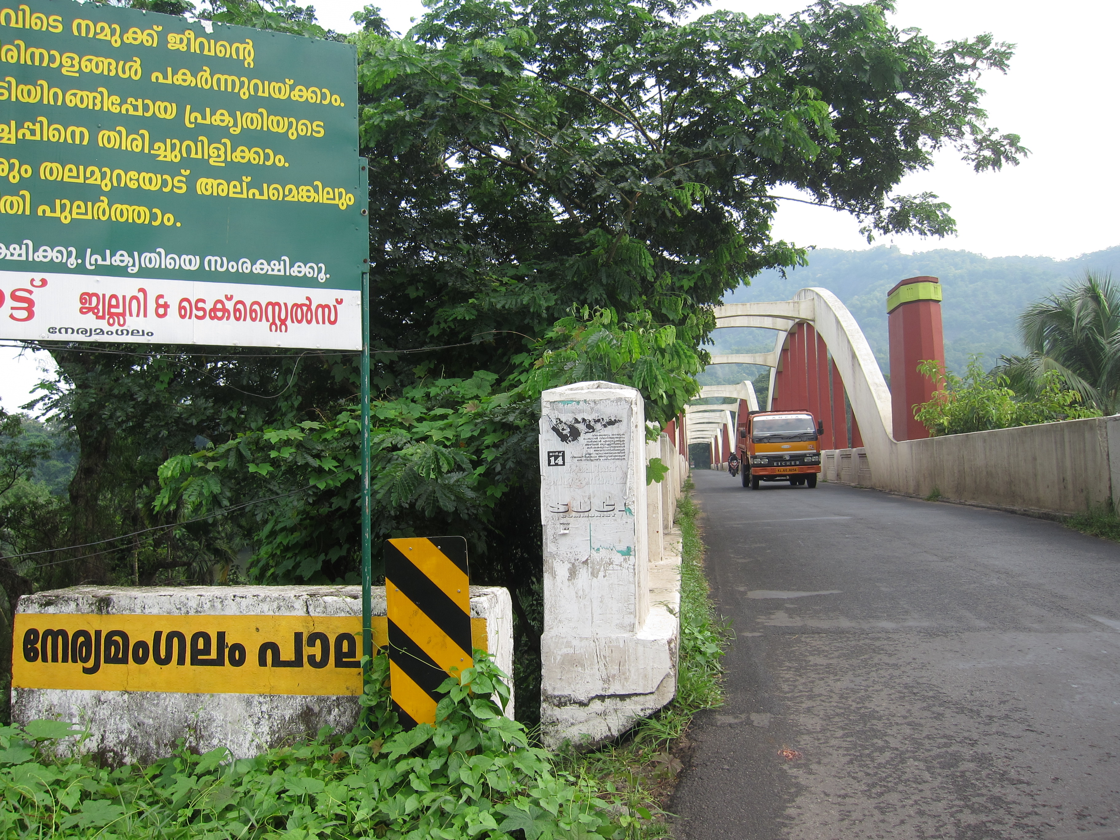 Neryamangalam Bridge Ernakulam District നേര്യമംഗലം പാലം എറുണാകുളം ജില്ല